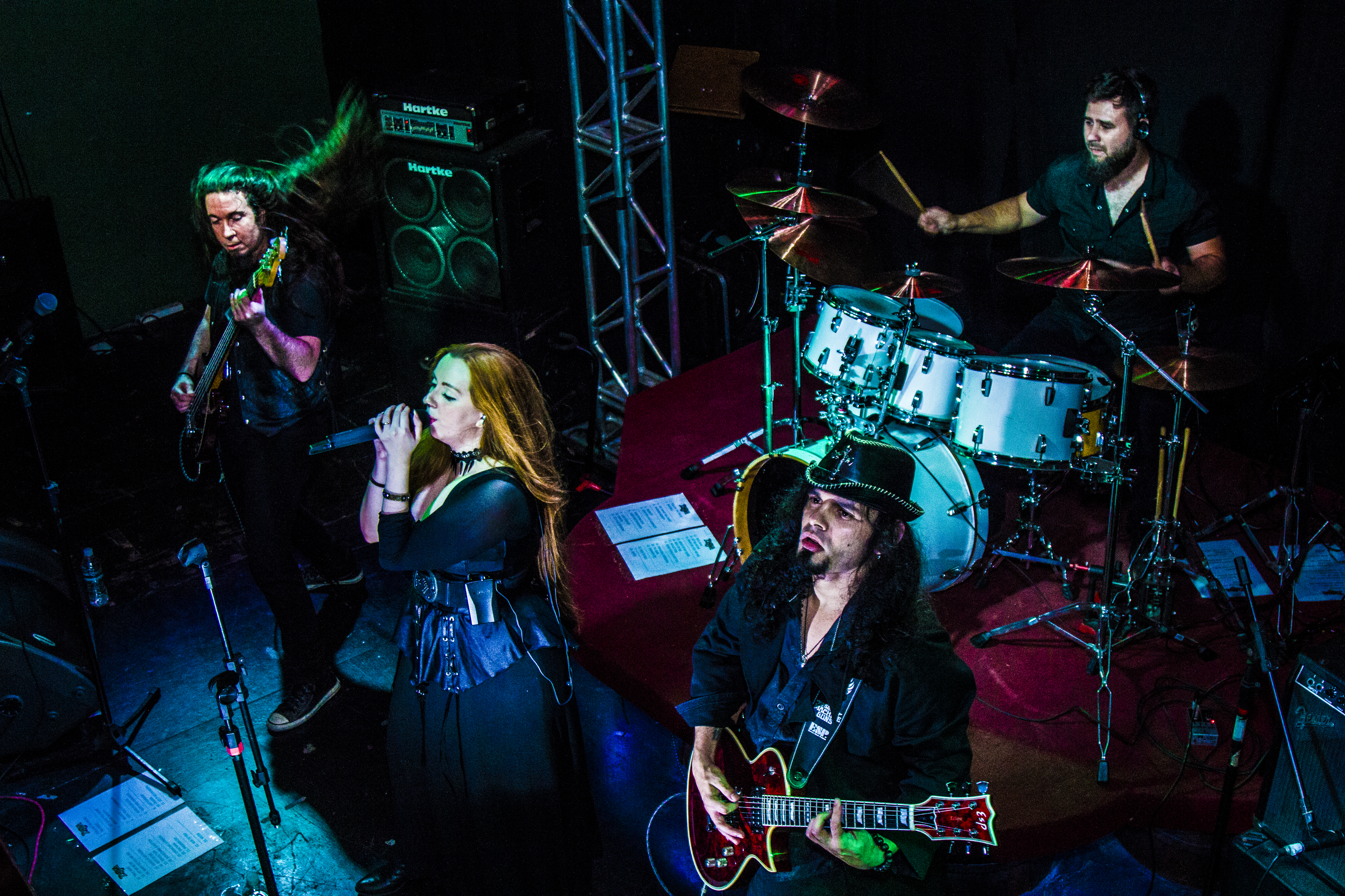 Lyria playing live at a concert hall during 2018 Immersion tour.